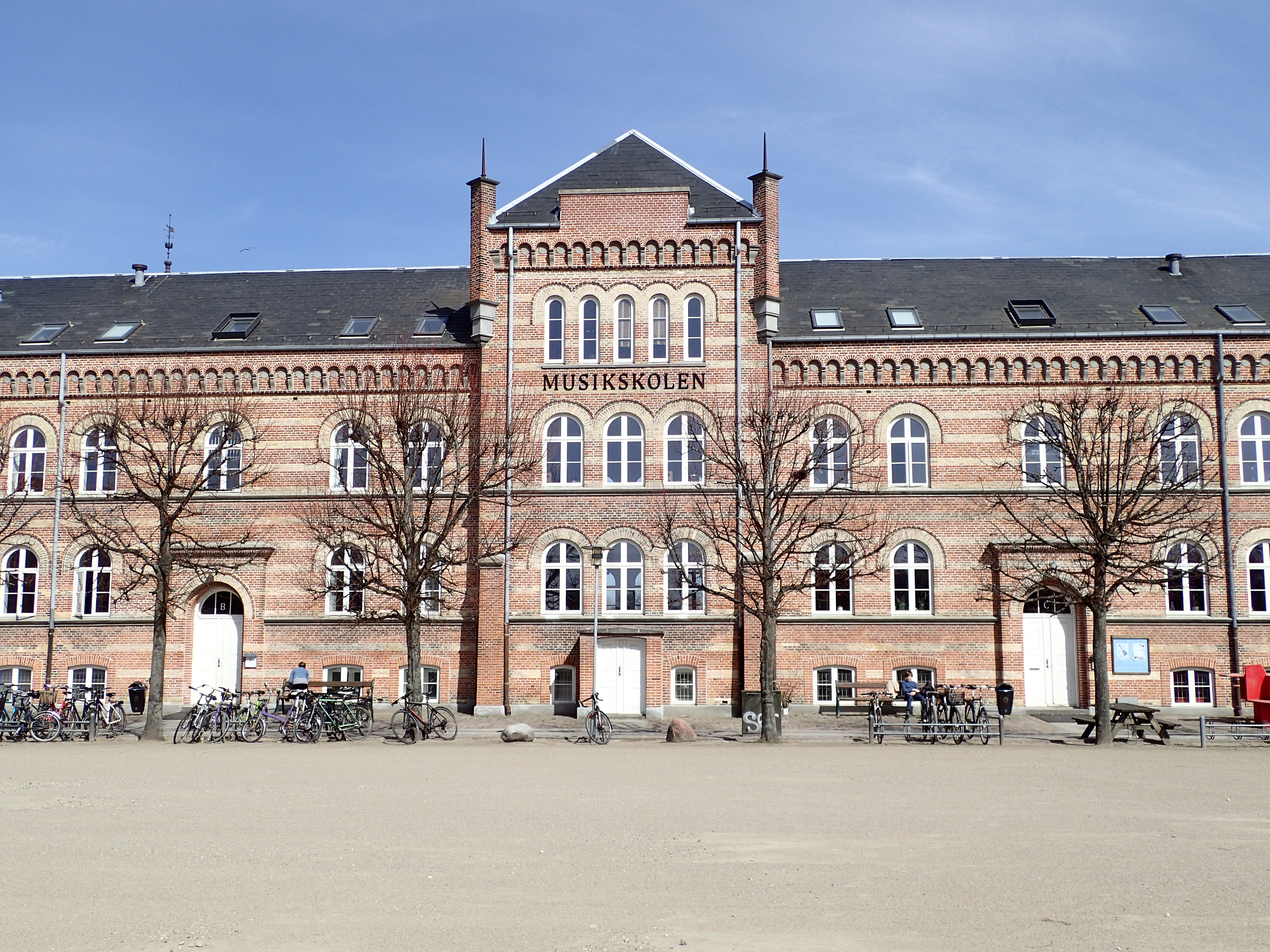 Aarhus Musikskole